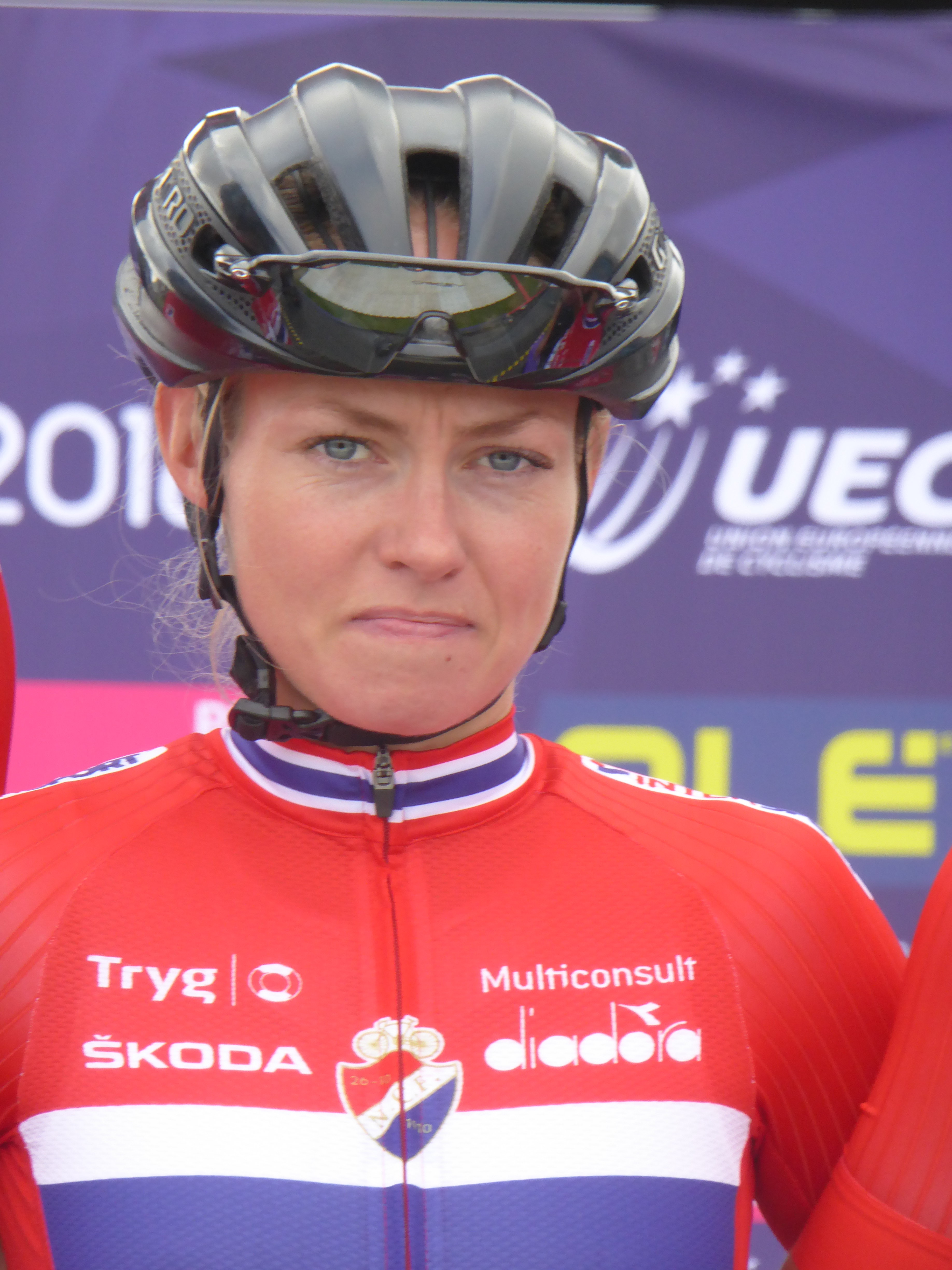 Stine Borgli (Norway), prior to the women's road race at the 2018 UEC European Road Cycling Championships in Glasgow.